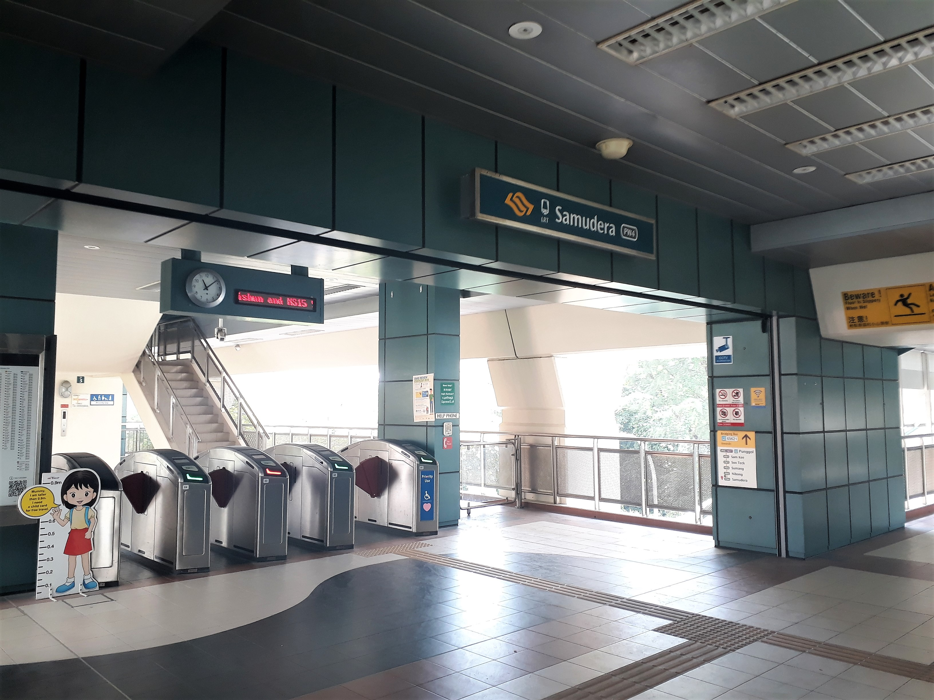 Concourse level of Samudera